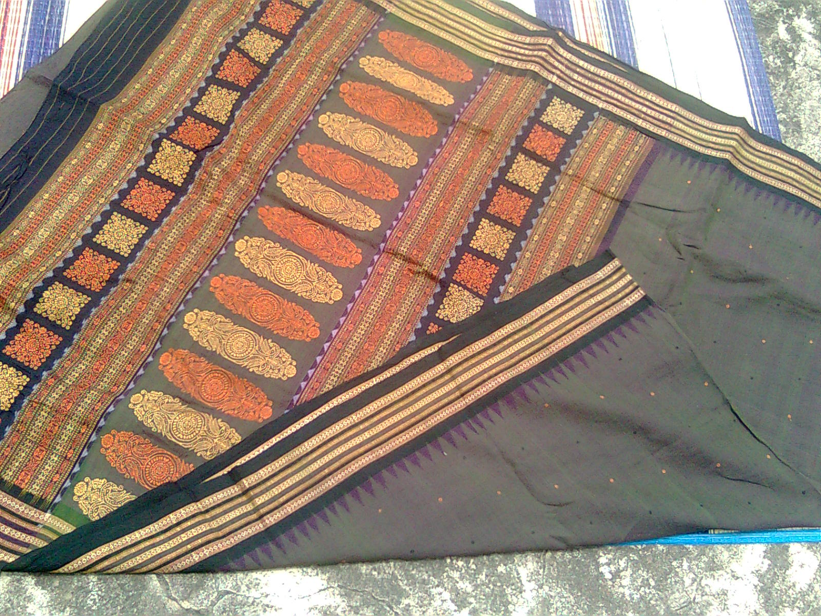 bomkai saree from Sonepur,Orissa